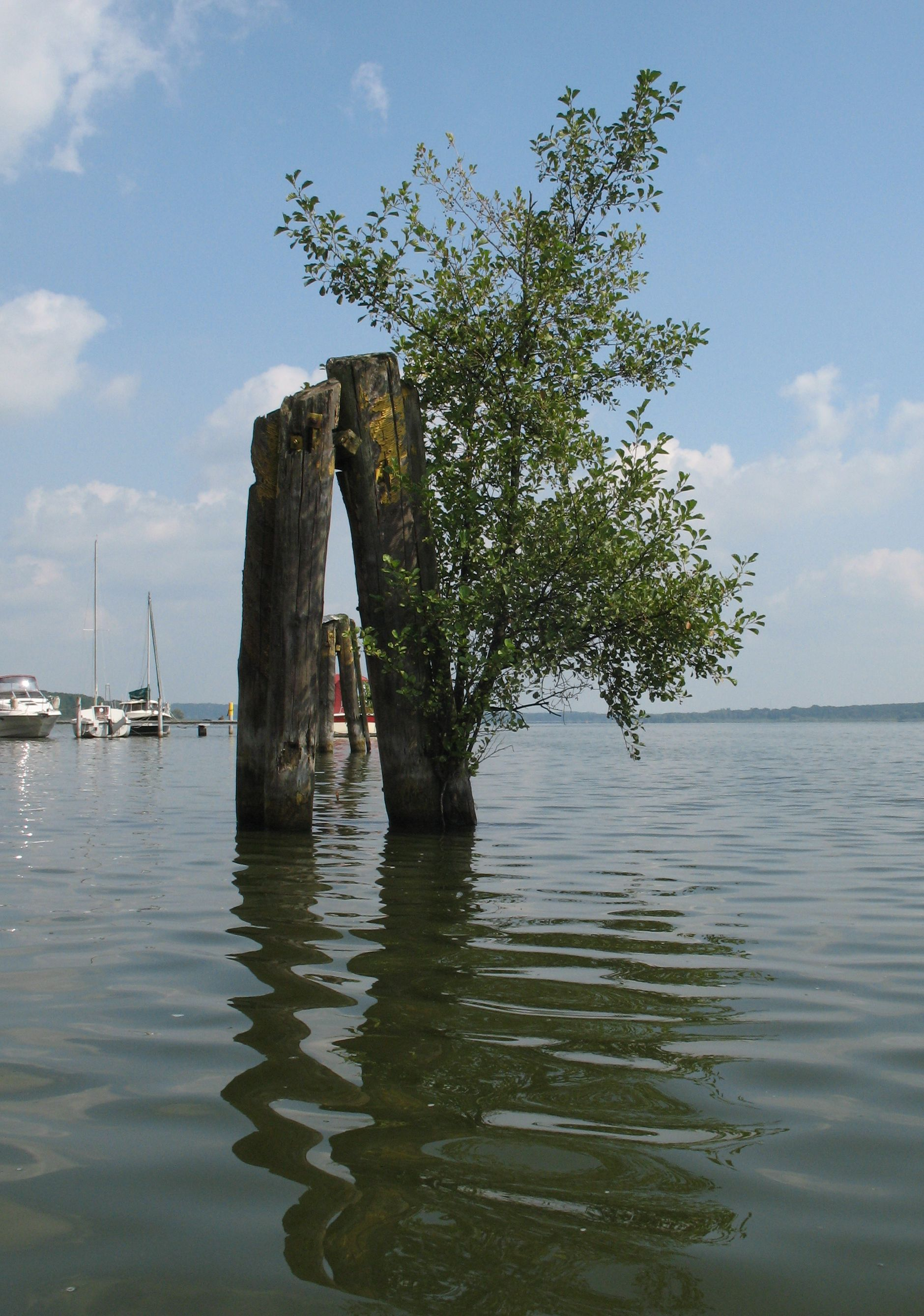 Dolphins in Schwielowsee-Ferch in Brandenburg, Germany